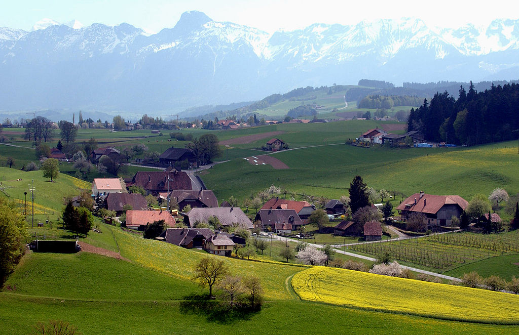 village of Englisberg, direction of view towards the Gantrisch mountain range